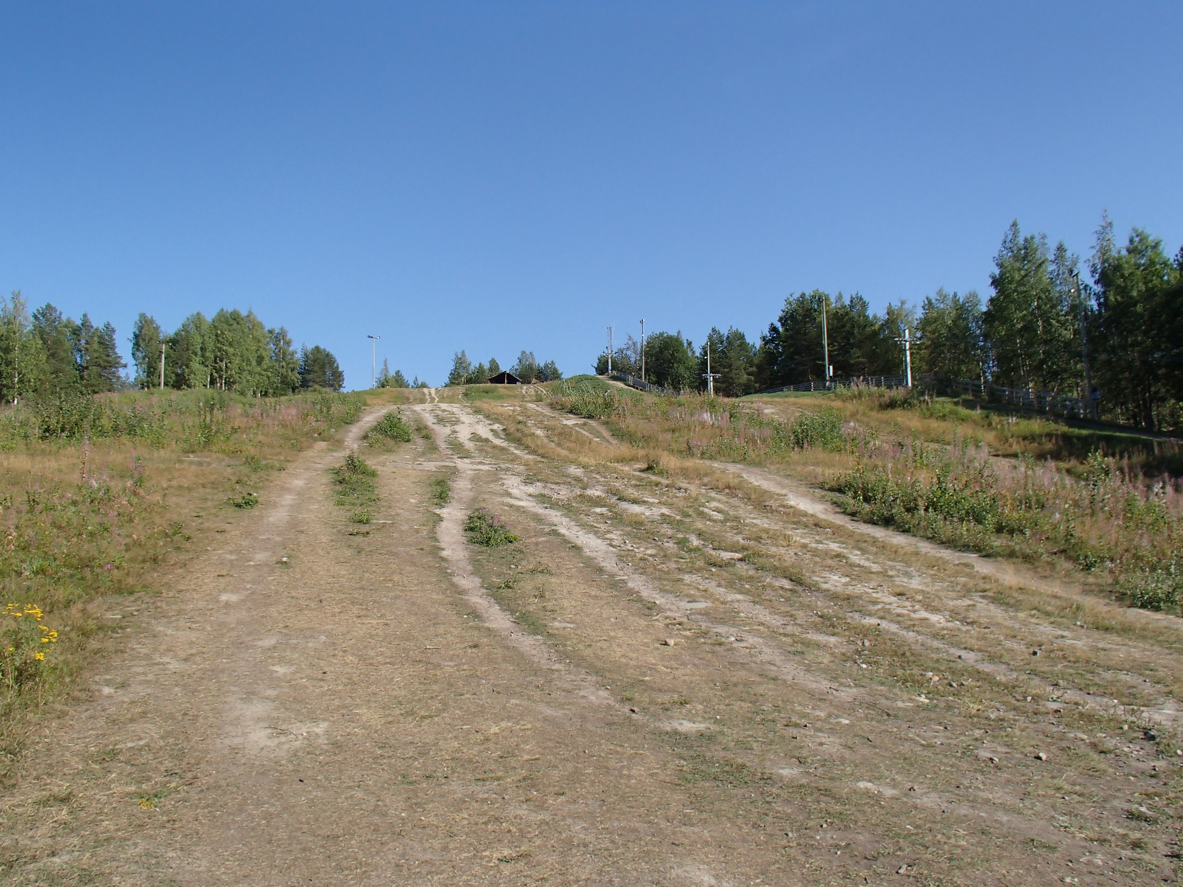 Ormbergsbacken